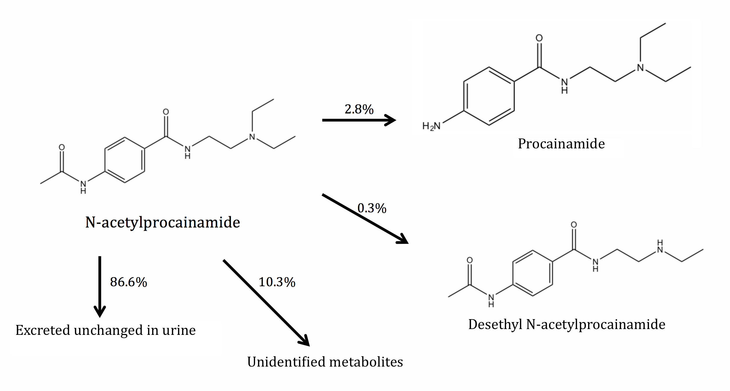 schema NAPA2